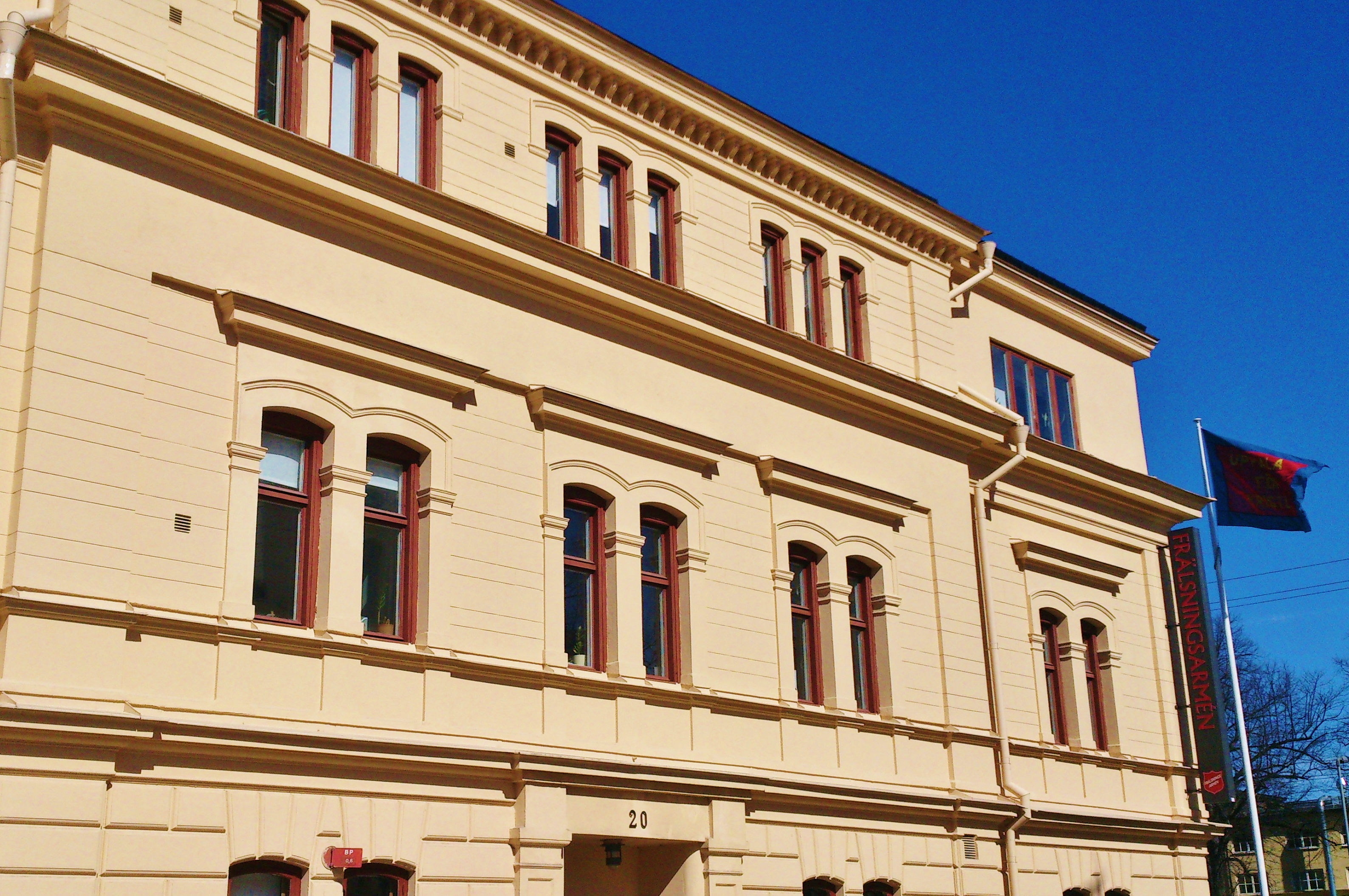 Frälsningsarmén in Uppsala on April 23, 2014